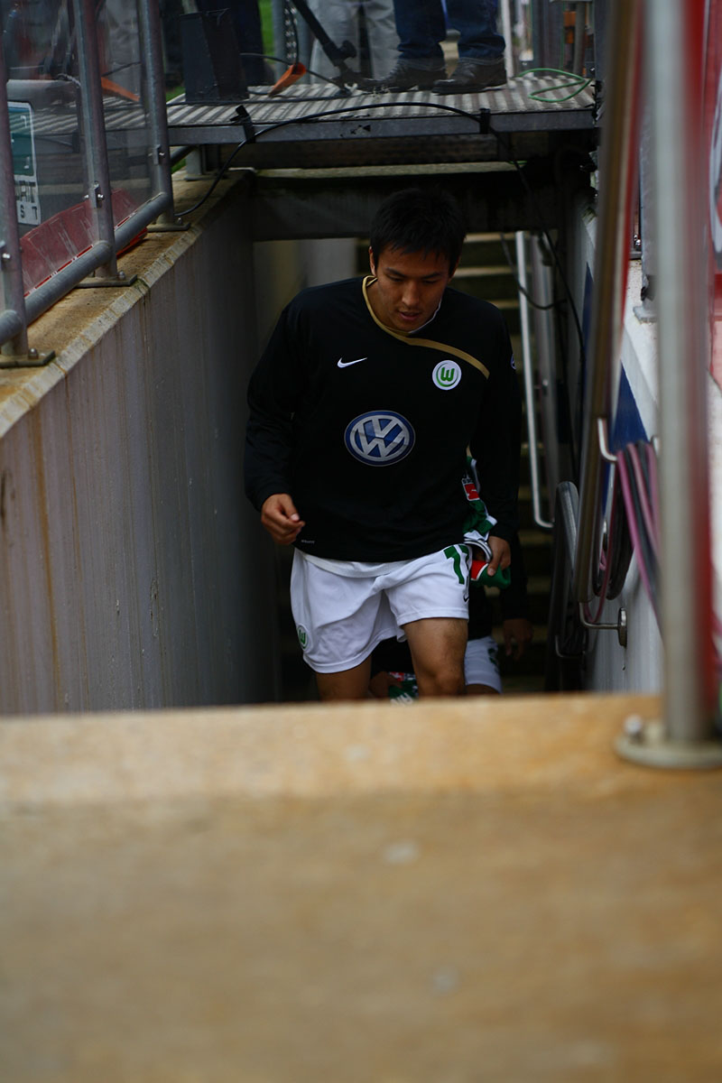 AUGUST 24, 2008 - Football : Makoto Hasebe of Wolfsburg before the 1.Bundesliga match between VfL Bochum and VfL Wolfsburg at the rewirpower stadium on August 24, 2008 in Bochum, Germany. (Photo by Tsutomu Takasu)